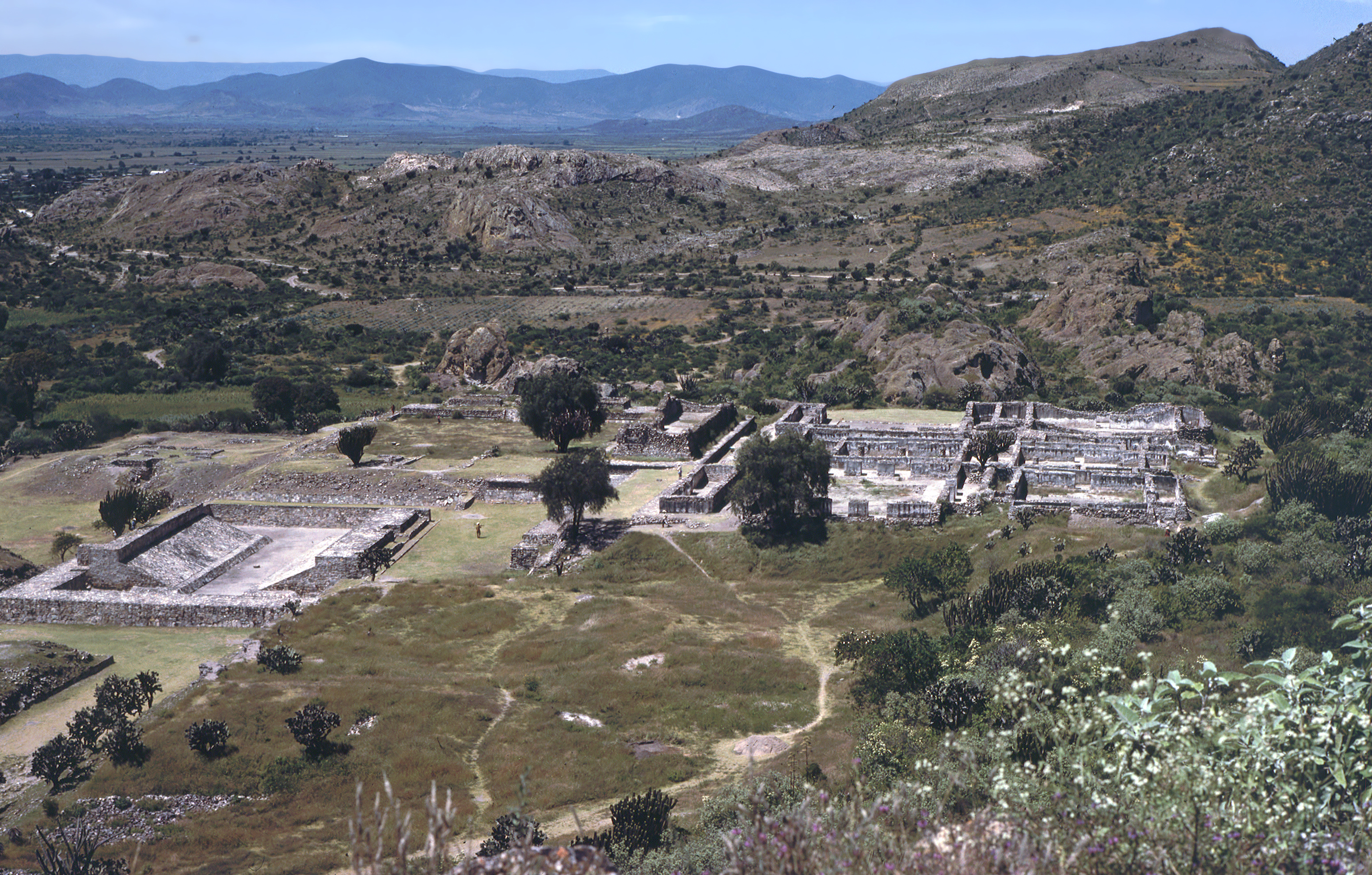 Yagul, Oaxaca, Mexico.